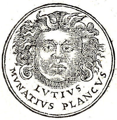 Lucius Munatius Plancus was a Roman senator, consul in 42 BC, and censor in 22 BC with Aemilius Lepidus Paullus.